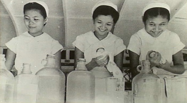 THREE PRETTY CHINESE GIRLS OF THE CANTEEN STAFF DRYING DISHES, MALAYA.